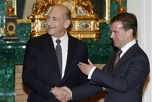 THE KREMLIN, MOSCOW. With Israeli Prime Minister Ehud Olmert.